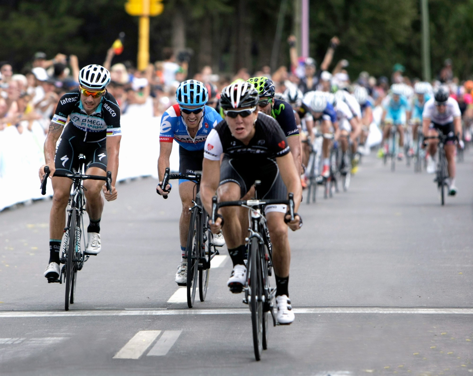 Giacomo Nizzolo wins 3rd stage of Tour de San Luis 2014. Behind came Fran Ventoso, Tom Boonen and Tyler Farrar